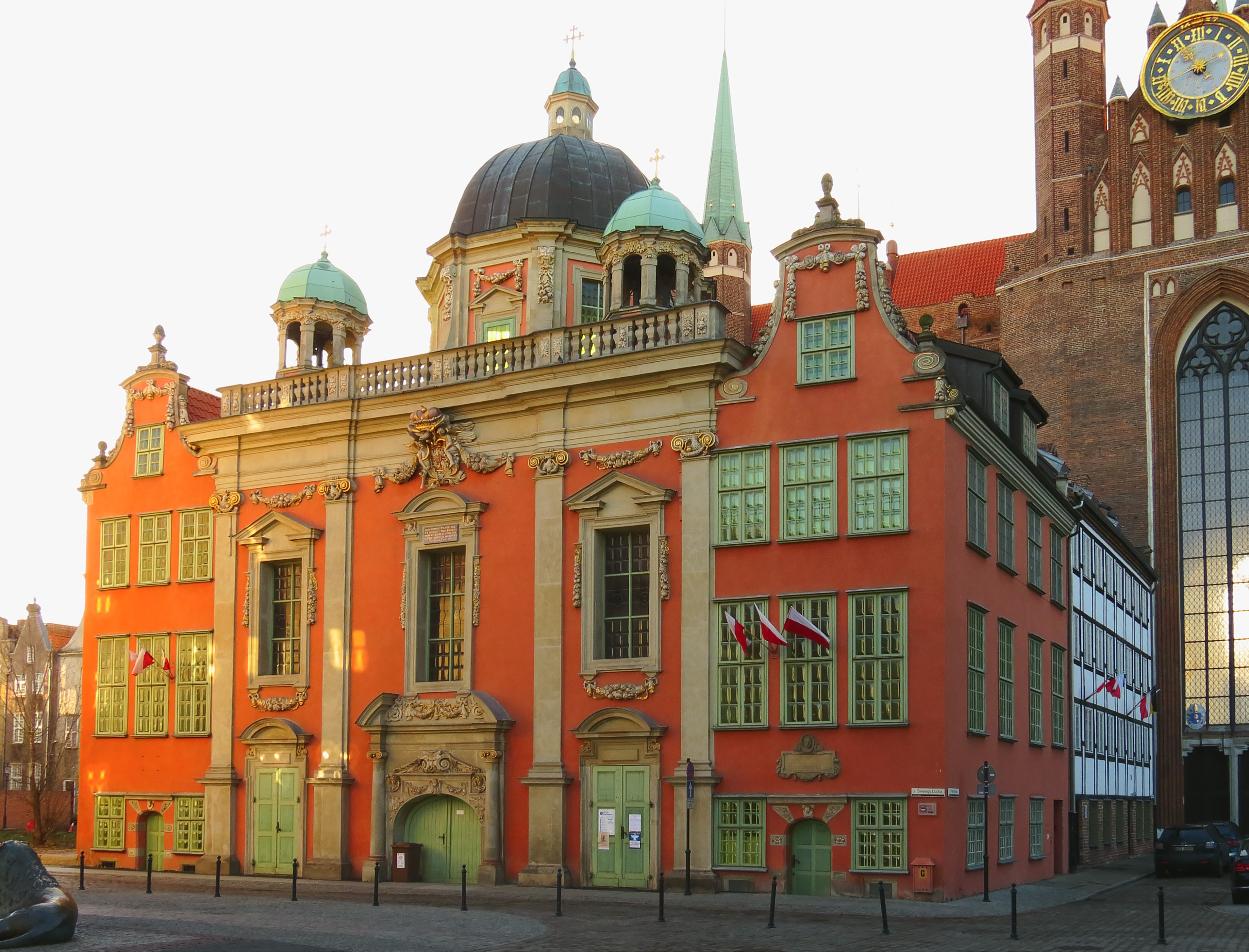 Royal Chapel in Gdańsk